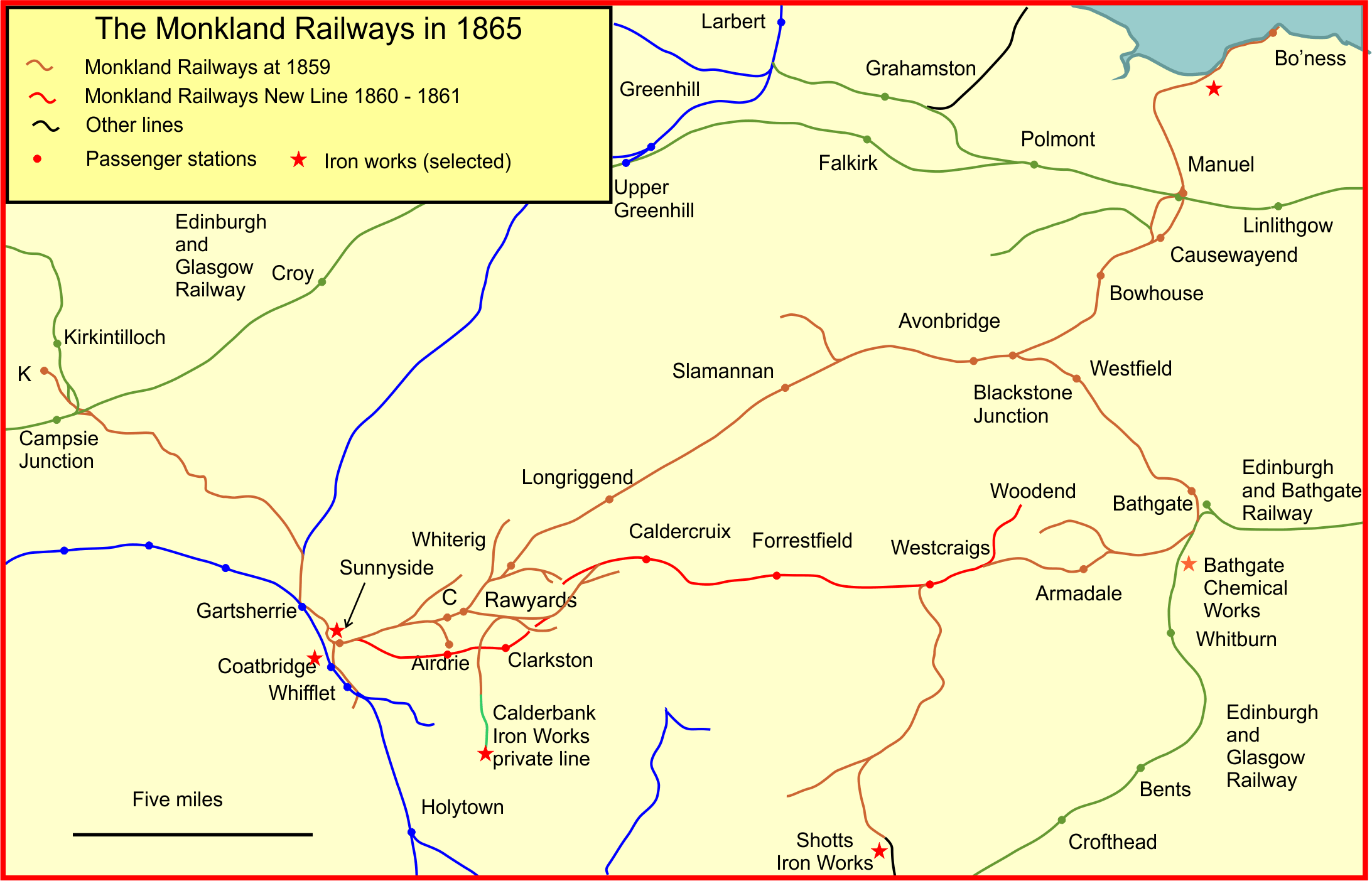 Diagram of Monkland Railways network in 1865